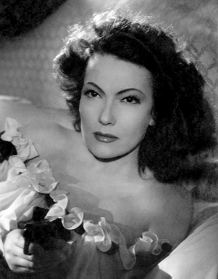 The Italian actress Isa Miranda (Ines Sanpietro) acting in the film Adventure starts tomorrow. 1948